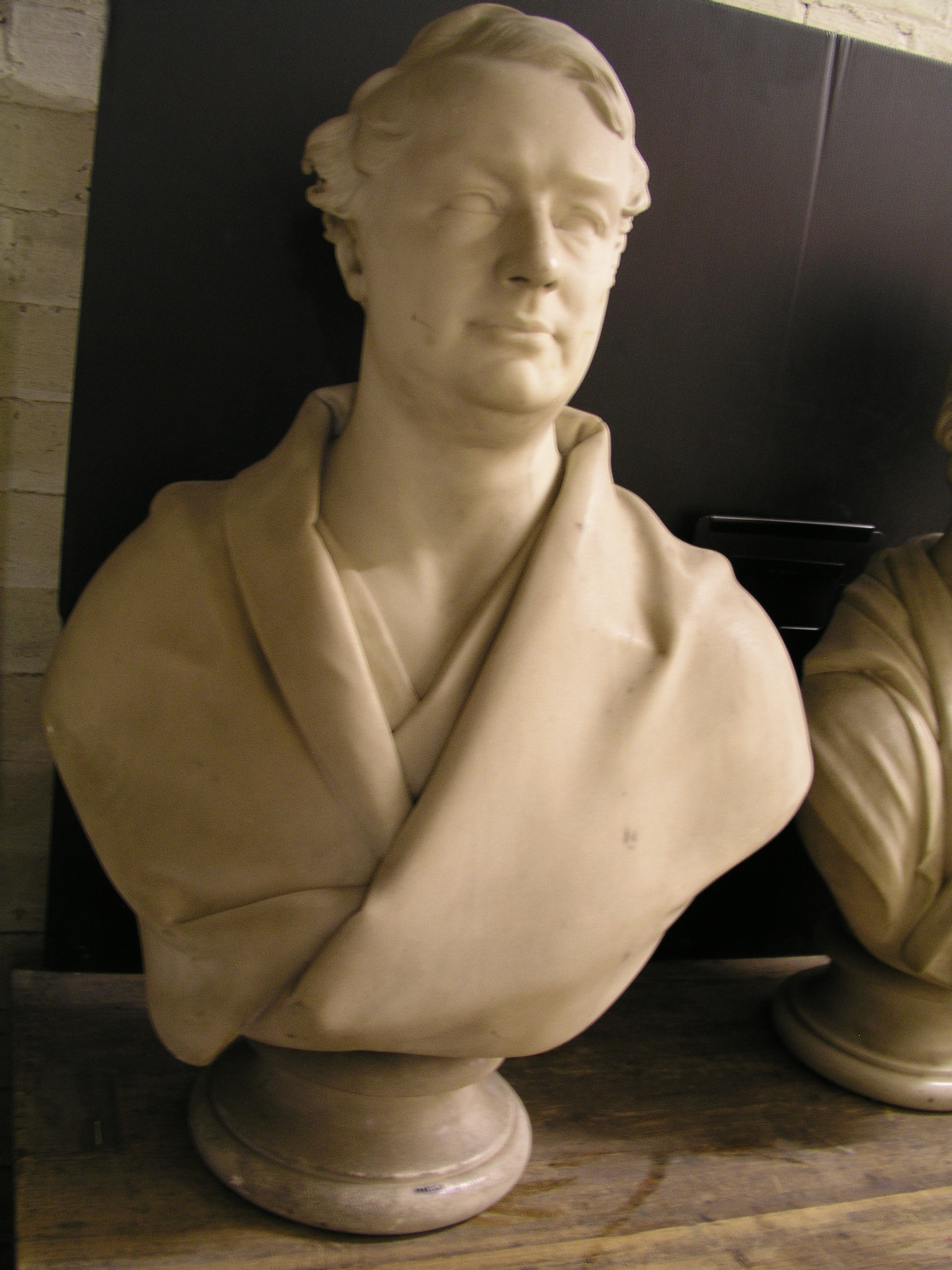 Bust of Sir William Arbuthnot, 1st Bt in Tunbridge Wells museum.